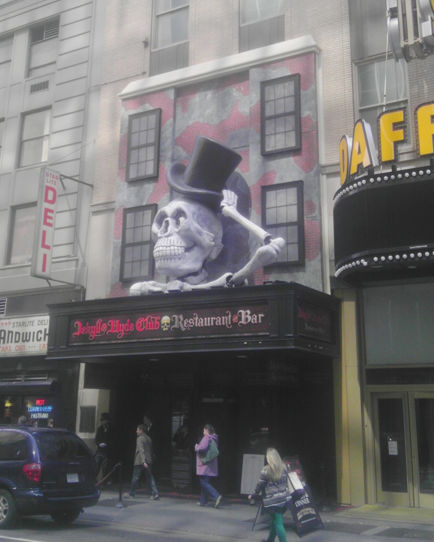 Looking south at new location of restaurant.